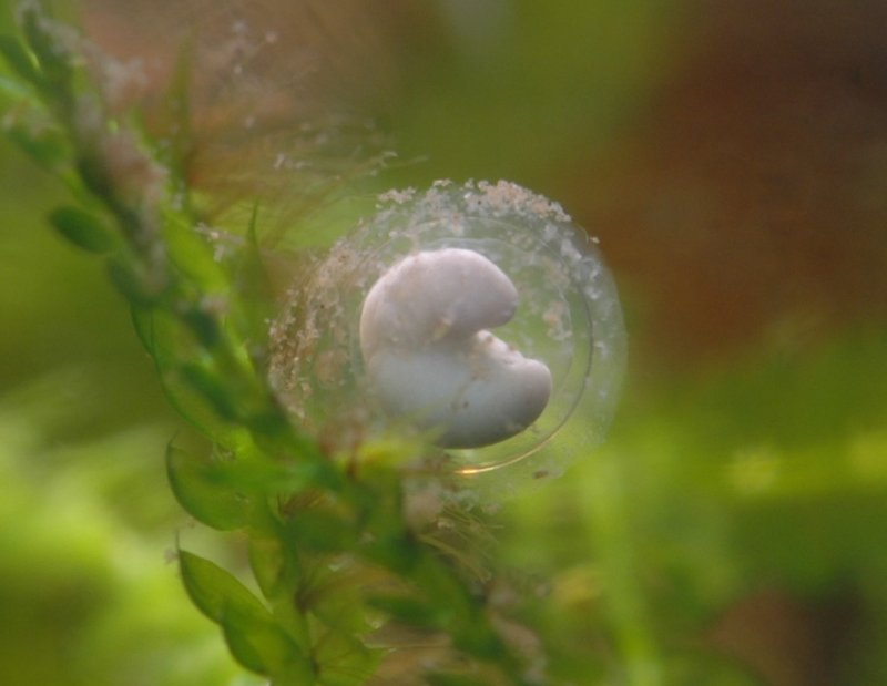 6-day-old Neurergus kaiseri egg. Picture taken in captivity, in France.